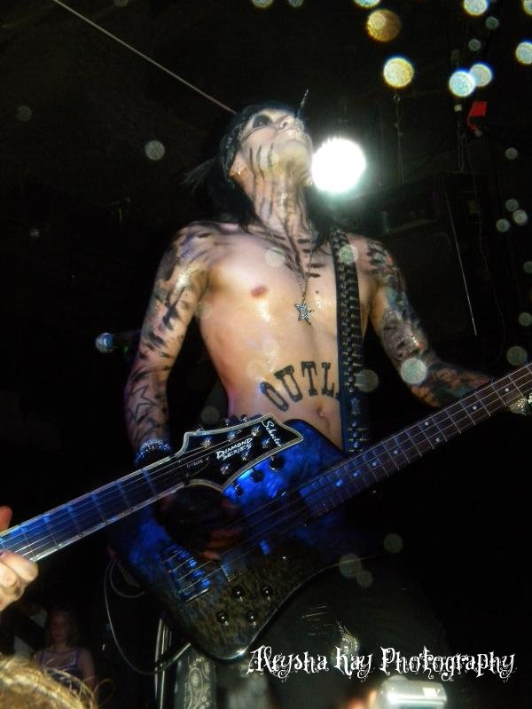 Black Veil Brides in Cleveland